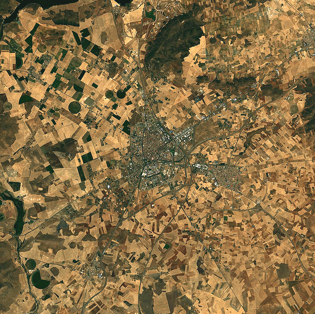 Observational Data courtesy of Landsat 8 satellite (Bands: 2, 3, 4, 8) & USGS. Data processed by Paul Quast. Data Specifications: Coordinates: 38.8807, -4.2337. Acquired: 25-July-2016 (Entity ID: LC82010332016207LGN00, Path: 201, Row: 33). Features of interest: Ciudad Real Central Airport (Abandoned Airport) [Middle]. Parque Natural Sierra de Cardena y Montoro [Bottom-Middle]. Puertollano [Middle]. Sierra Morena Mountain [Bottom-Middle]. Toledo (Outskirts) [Top-Middle].